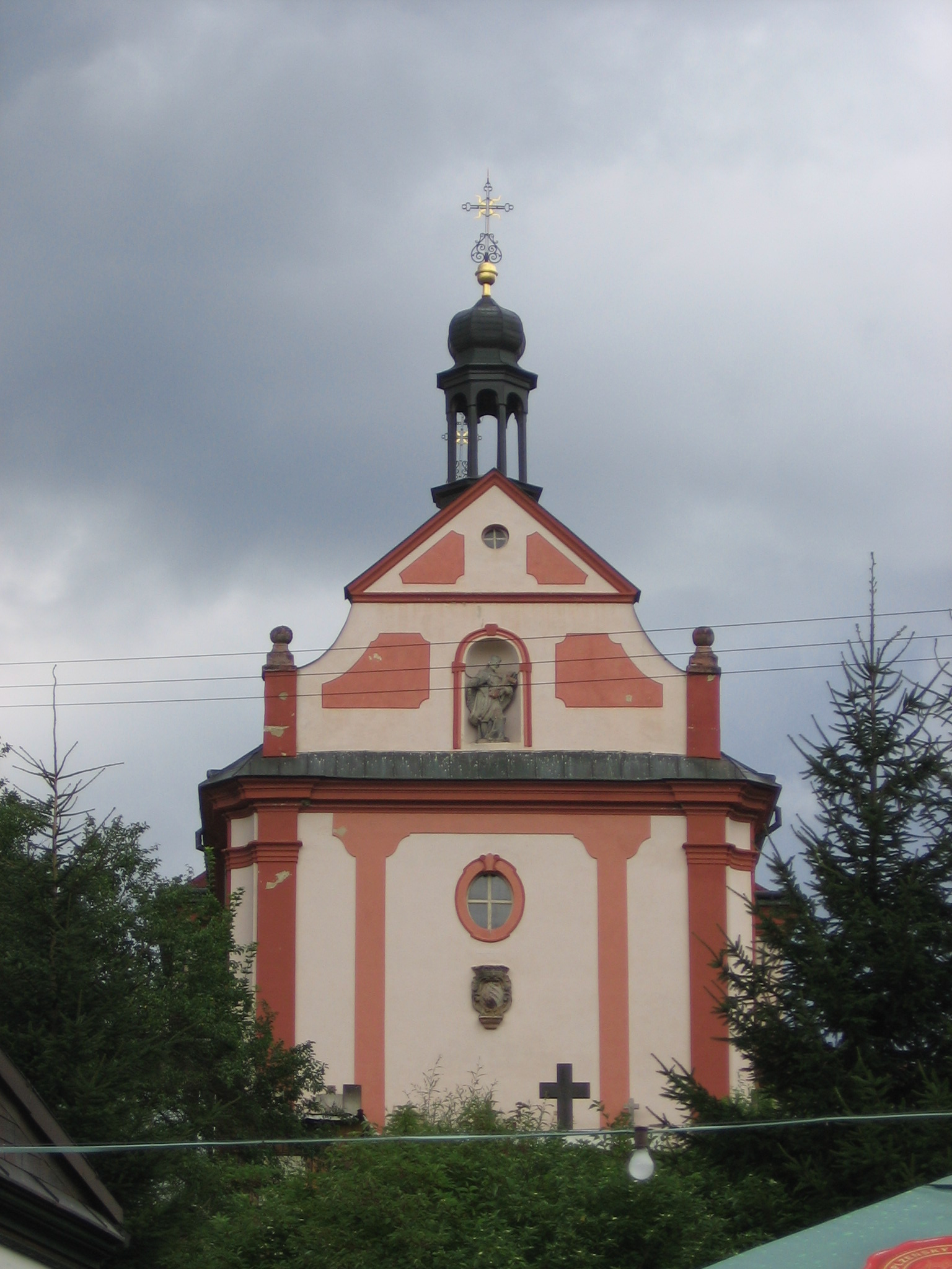 Church of St John of Nepomuk in Jetřichovice (Ústí nad Labem Region, Czech Republic)